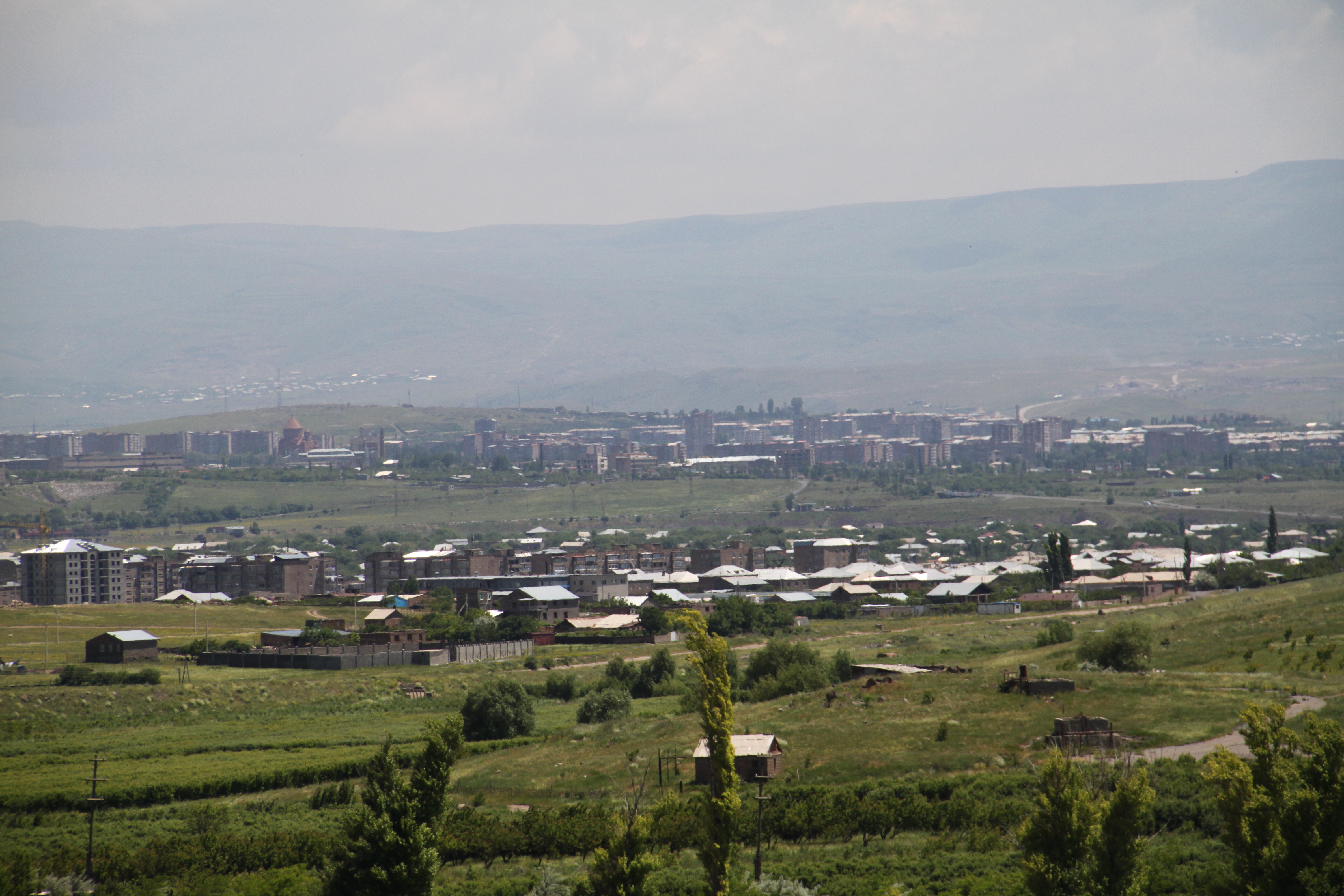 View of the city of Abovyan in Armenia, from near the town of Nor Hachn.